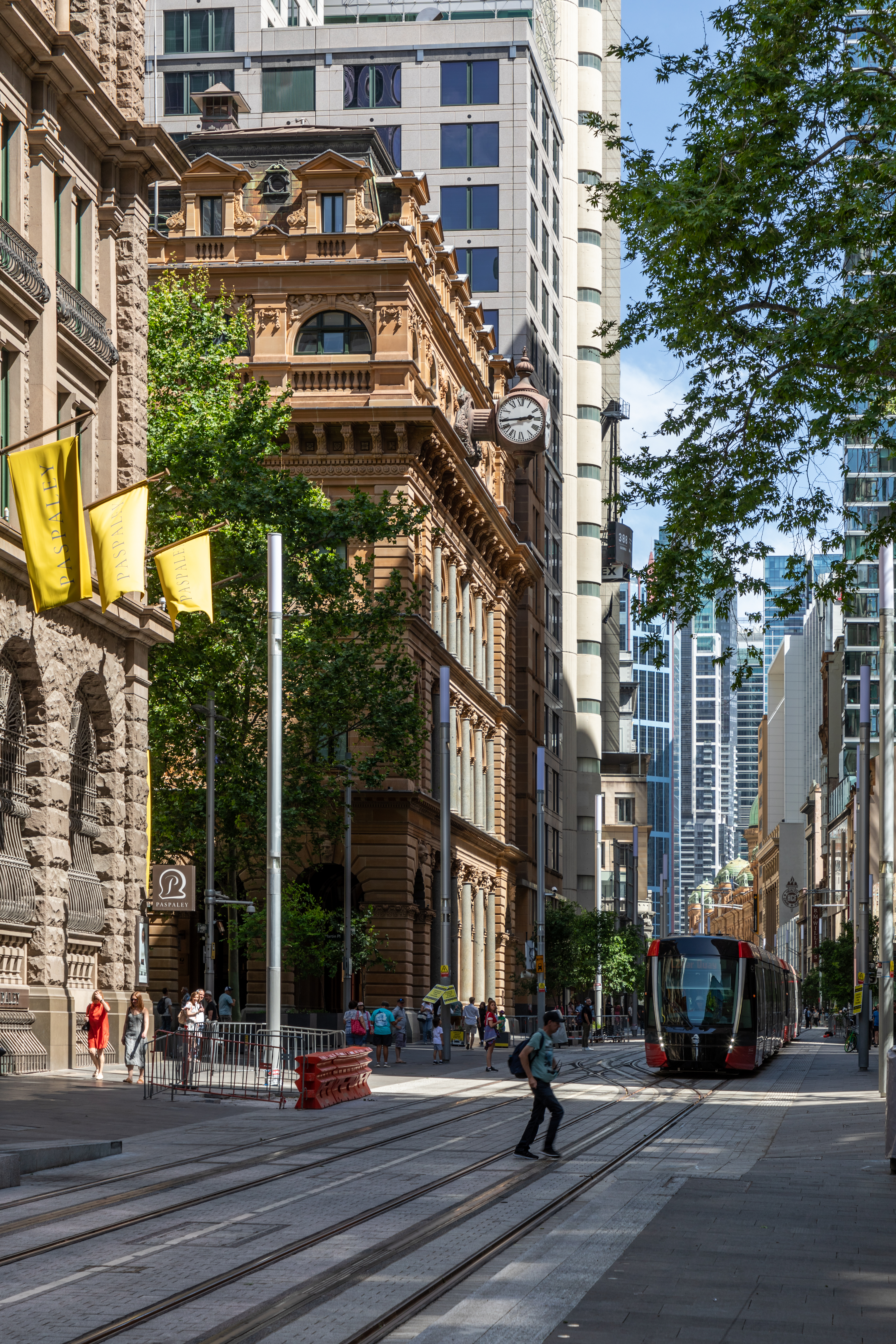 Fullerton Hotel and George Street, Sydney, New South Wales, Australia